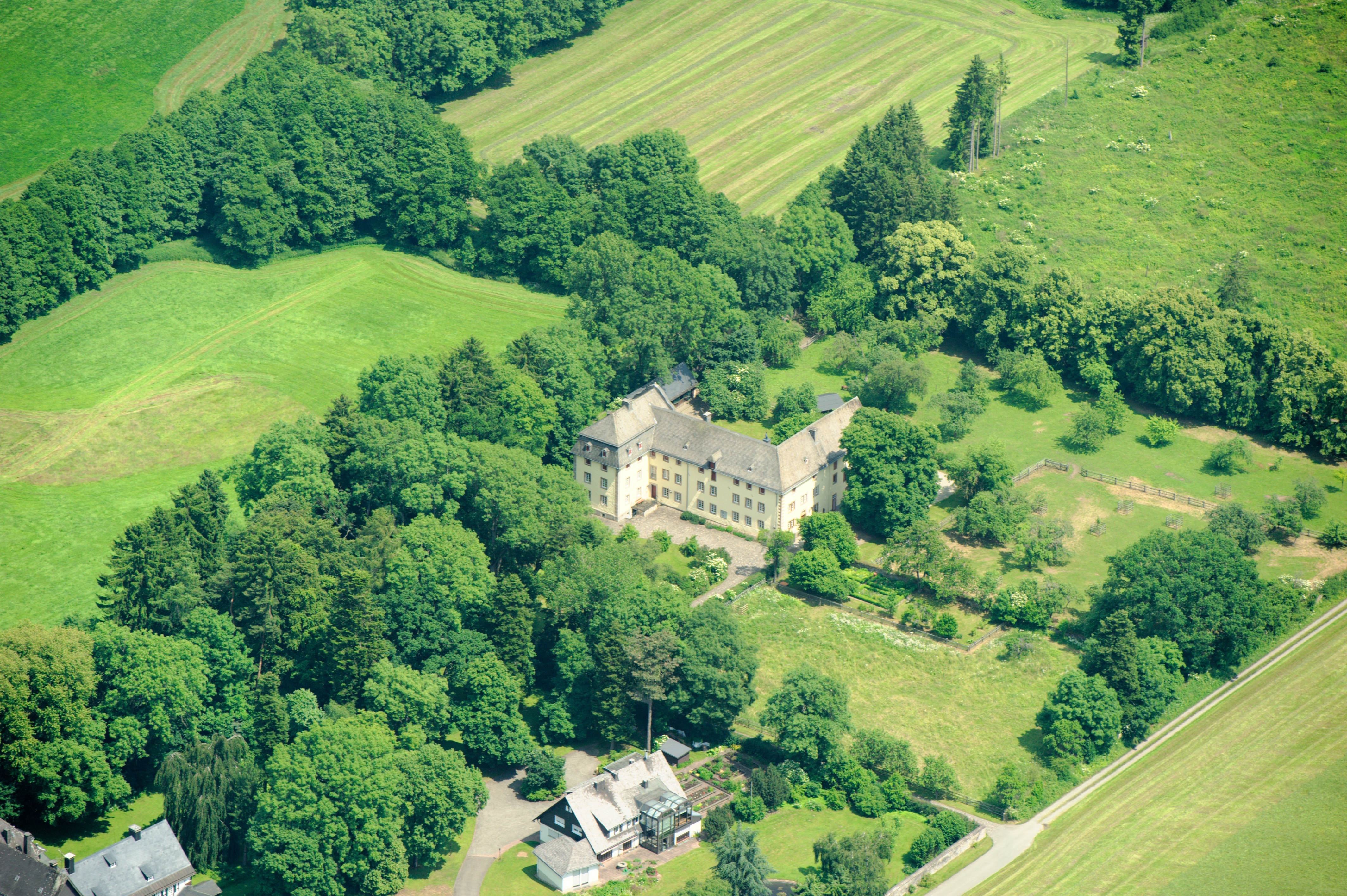 Fotoflug Sauerland-Ost – Kloster Glindfeld aus südwestlicher Richtung The making of this document was supported by the Community-Budget of Wikimedia Germany.